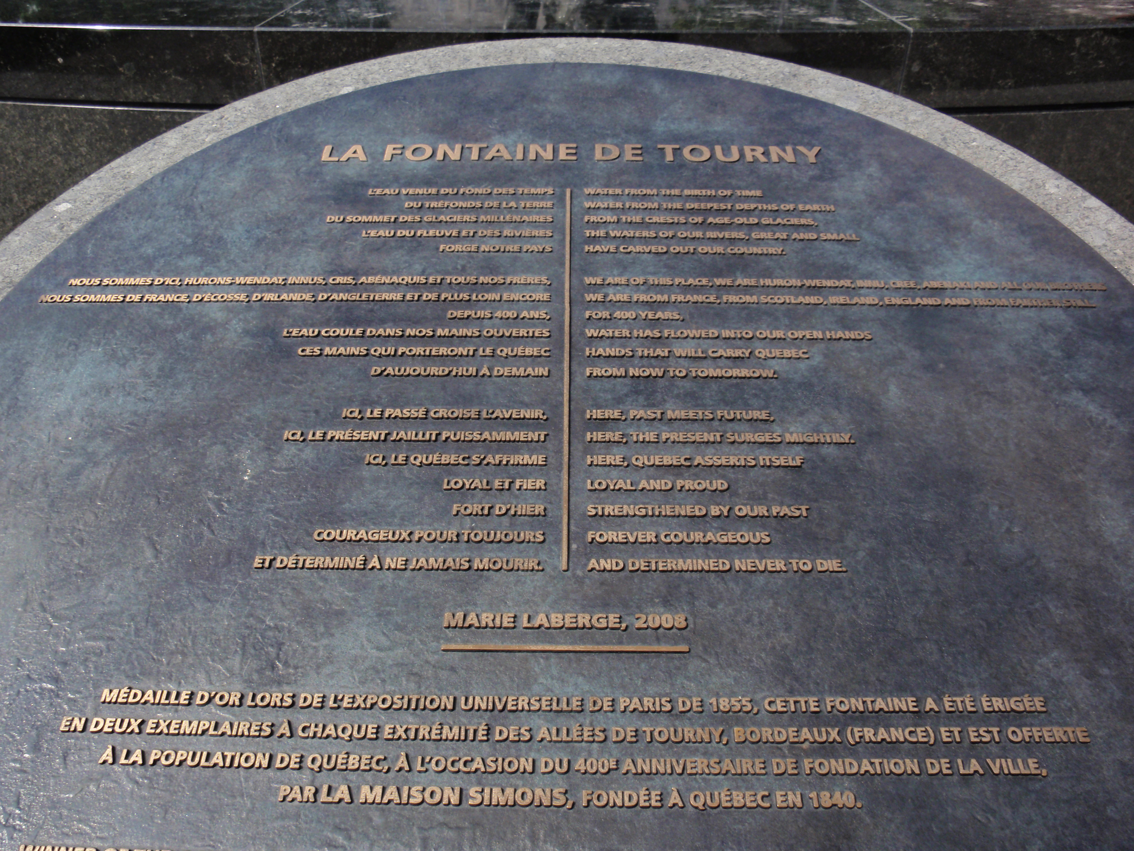 Fontaine de Tourny in Quebec City, poem by Marie Laberge